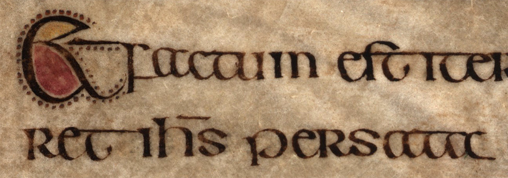 Decorated initial and script, Mark 2:23 (page 151), from the St Chad Gospels (circa 730). For further information, see Manuscripts of Lichfield Cathedral